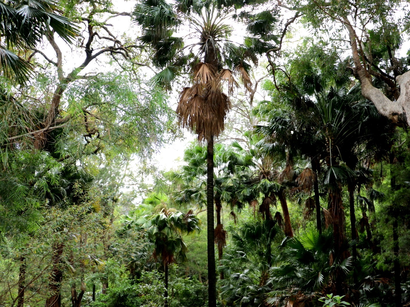 Campbells Crater with Cabbage Tree Palm (Livistona australis)